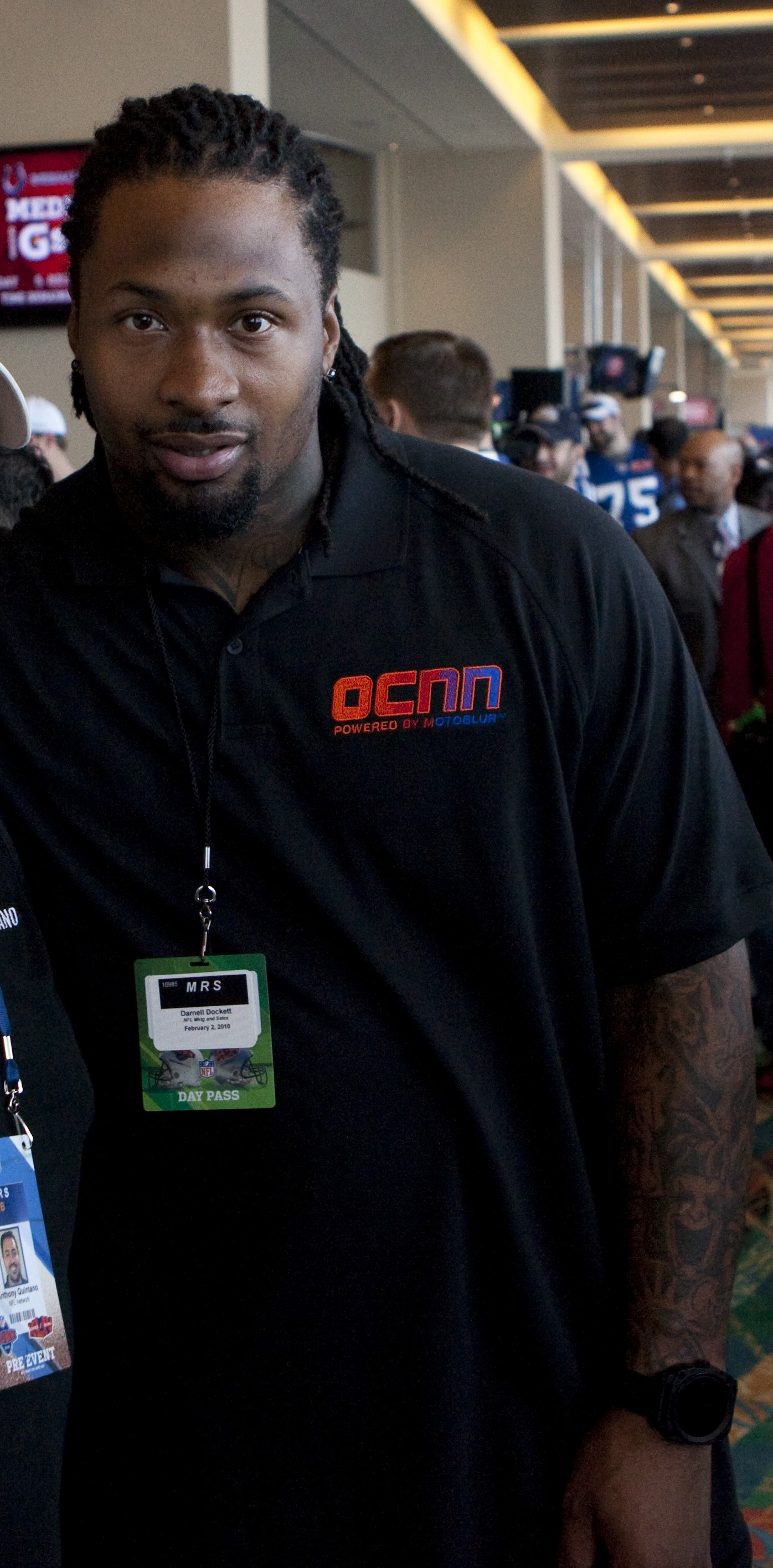 Arizona Cardinals defensive end, Darnell Dockett, at Super Bowl XLIV Media Day at Sun Life stadium.